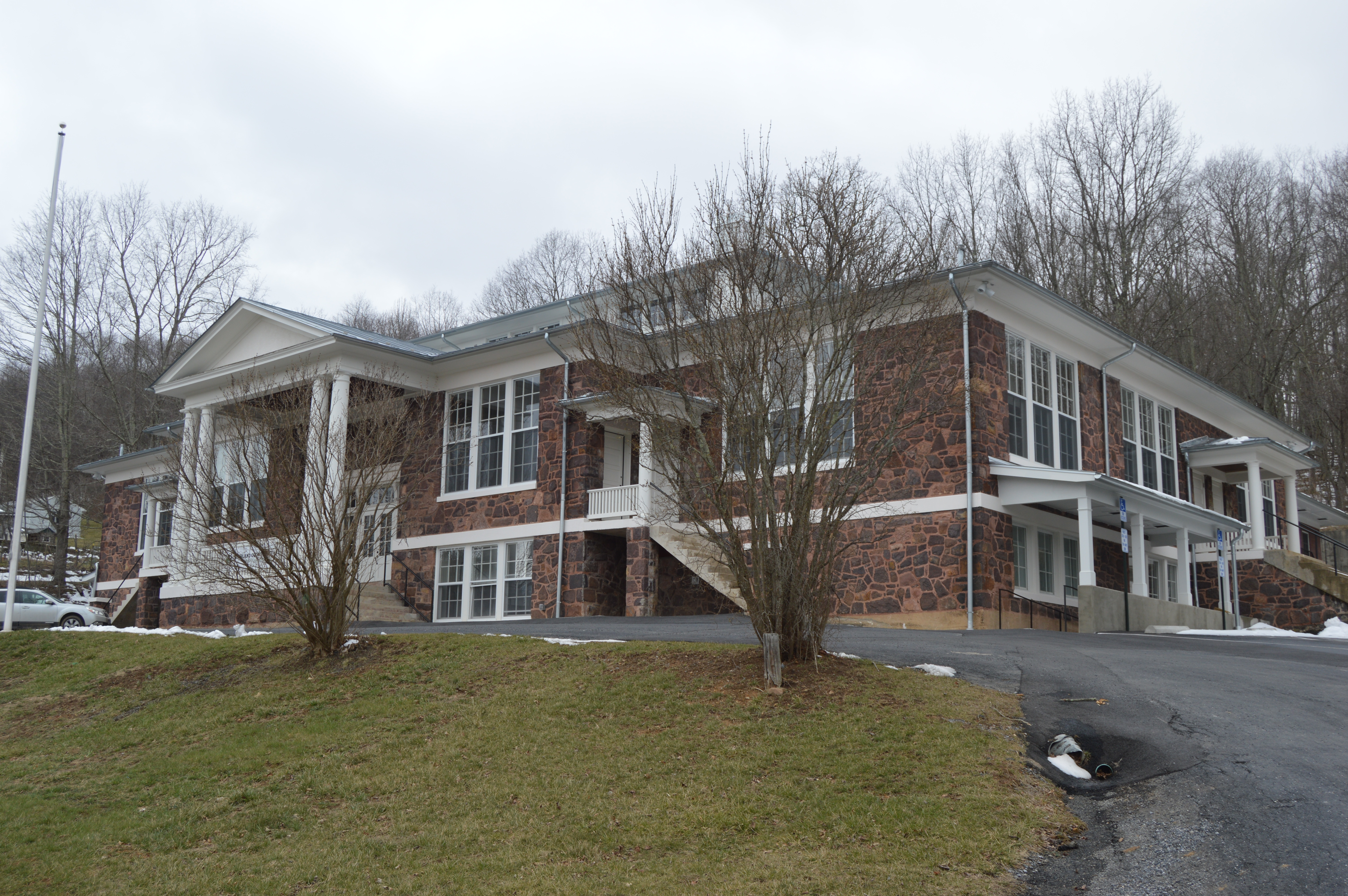 Front and northeastern side of the former Monterey High School (now the Highland Center, some sort of community center), located on Spruce Street in the southwestern corner of Monterey, Virginia, United States. Built in 1922, it is listed on the National Register of Historic Places.